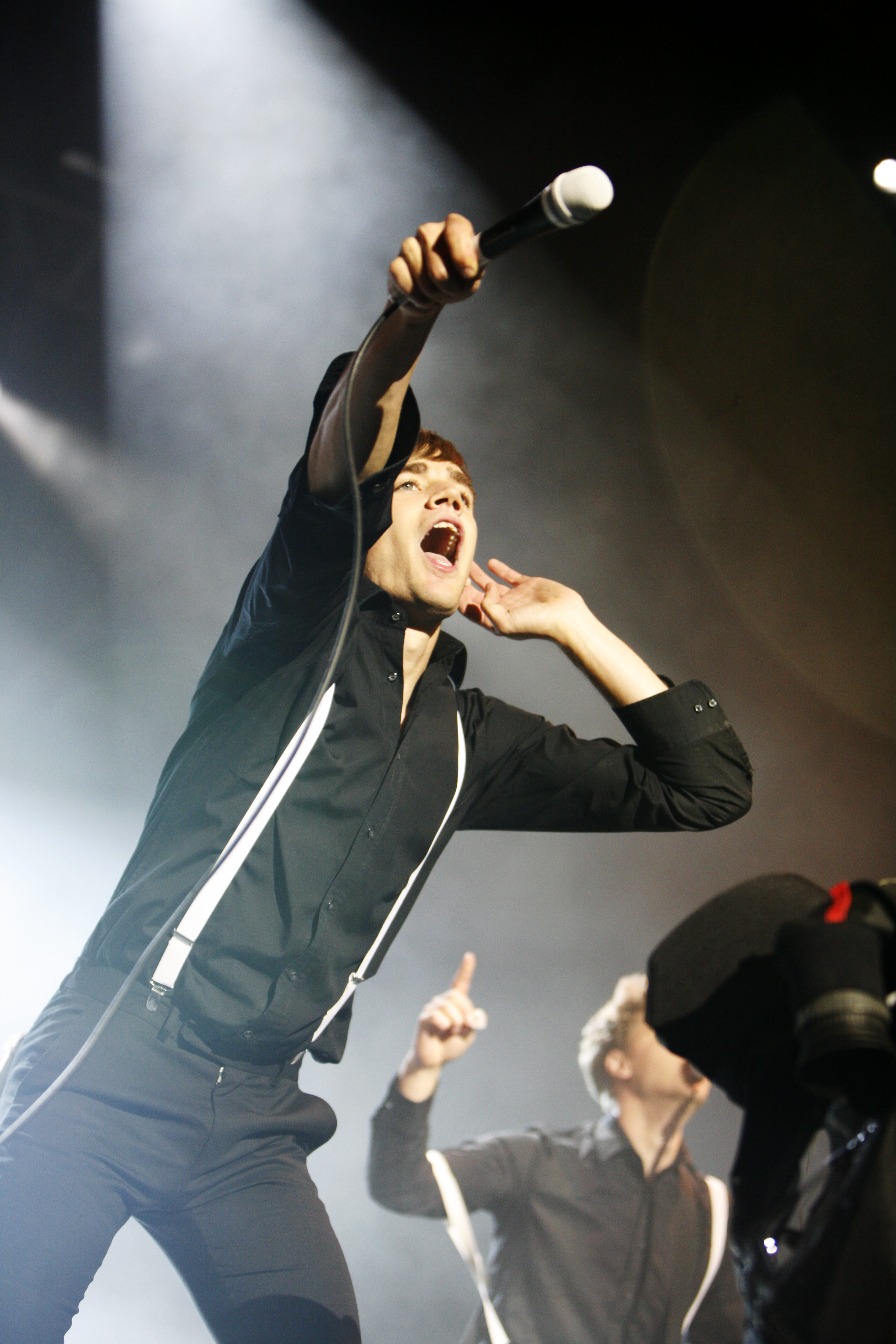 The Hives at the Eurockéennes of 2007